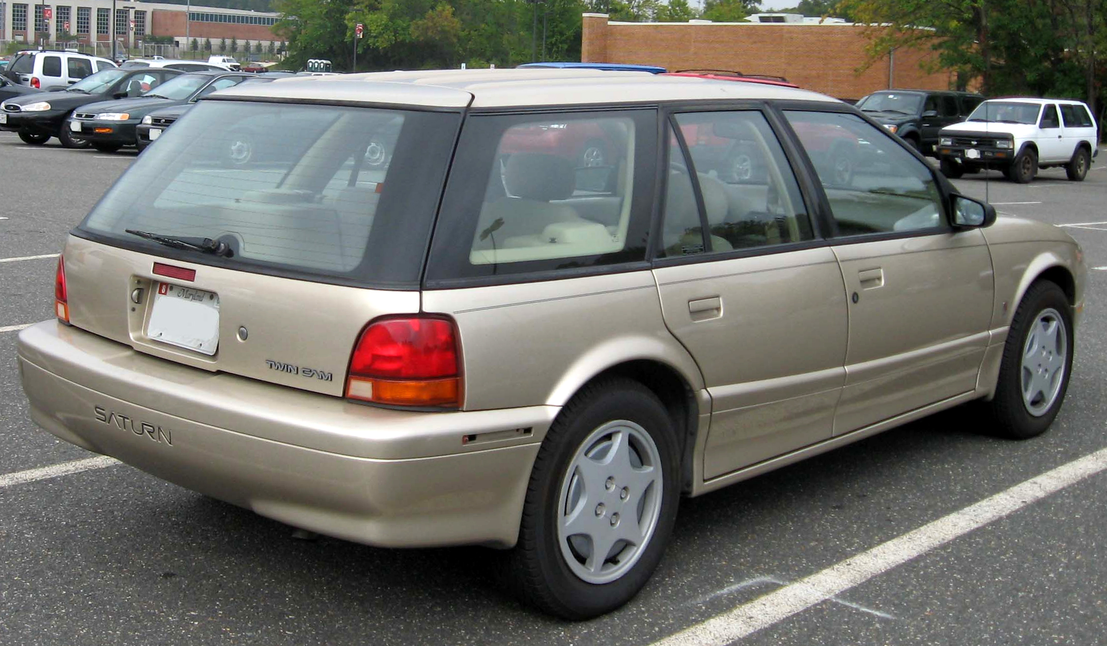 1993-1995 Saturn SW photographed in College Park, Maryland, USA.